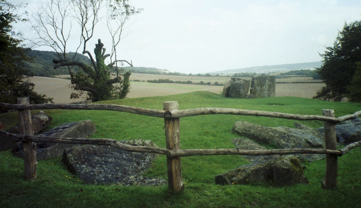 View of Coldrum Long Barrow from the west of it; the peristalith is in the foreground and the chamber to the rear.